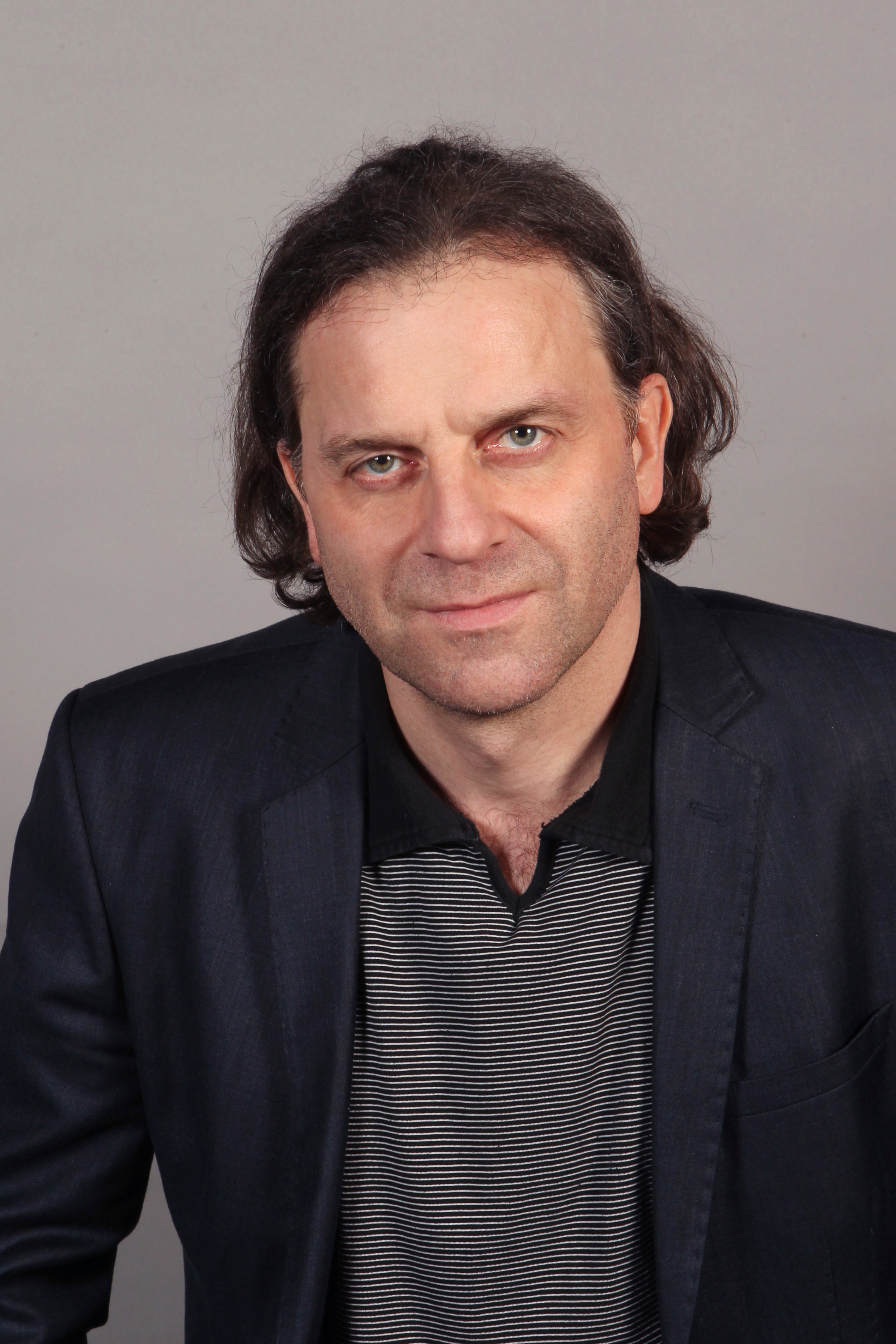 Pál Oberfrank